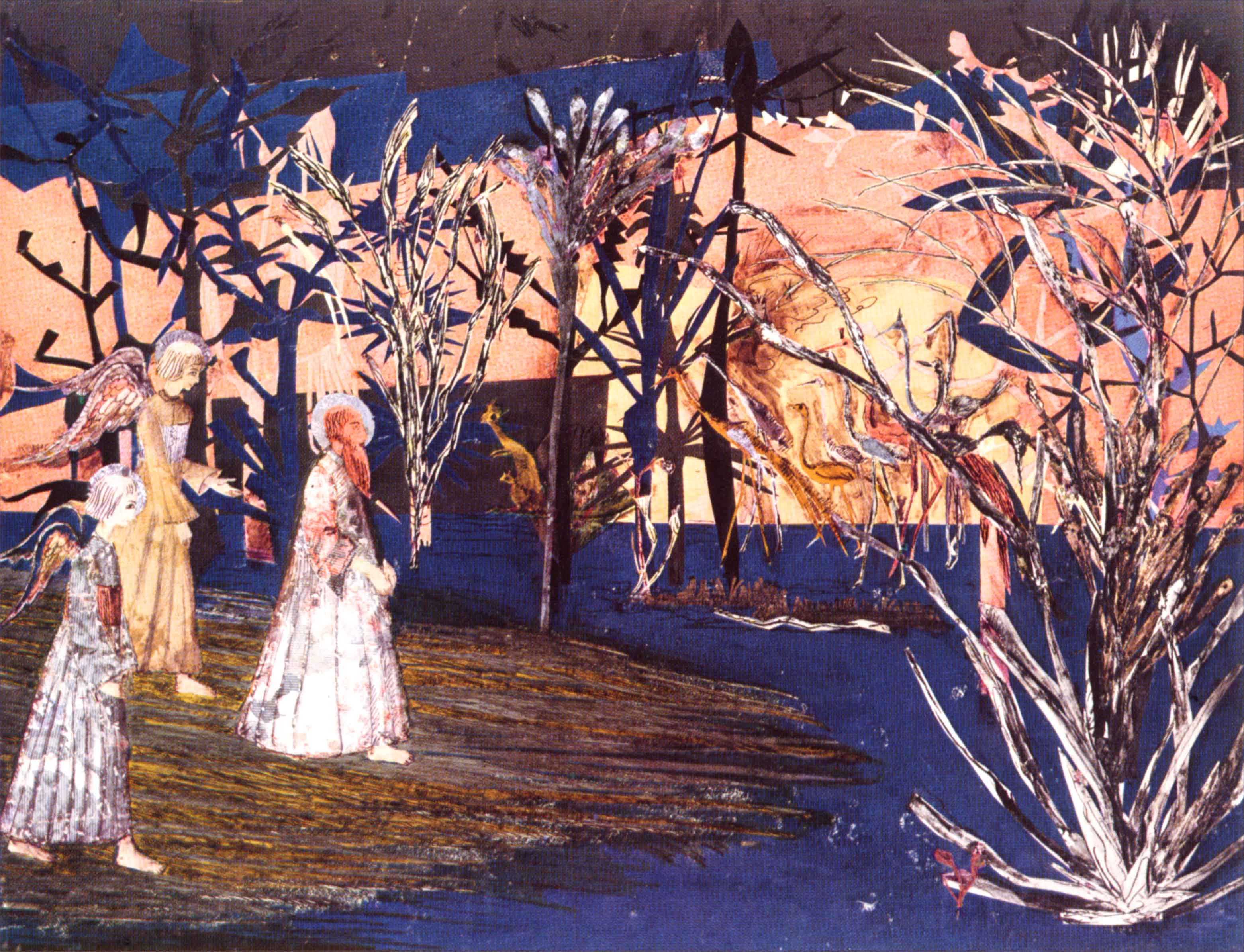 Sjöundi dagur í Paradís (Seventh Day in Paradise) by Guðmundur Thorsteinsson ("Muggur") (1891-1924). Made in 1920.